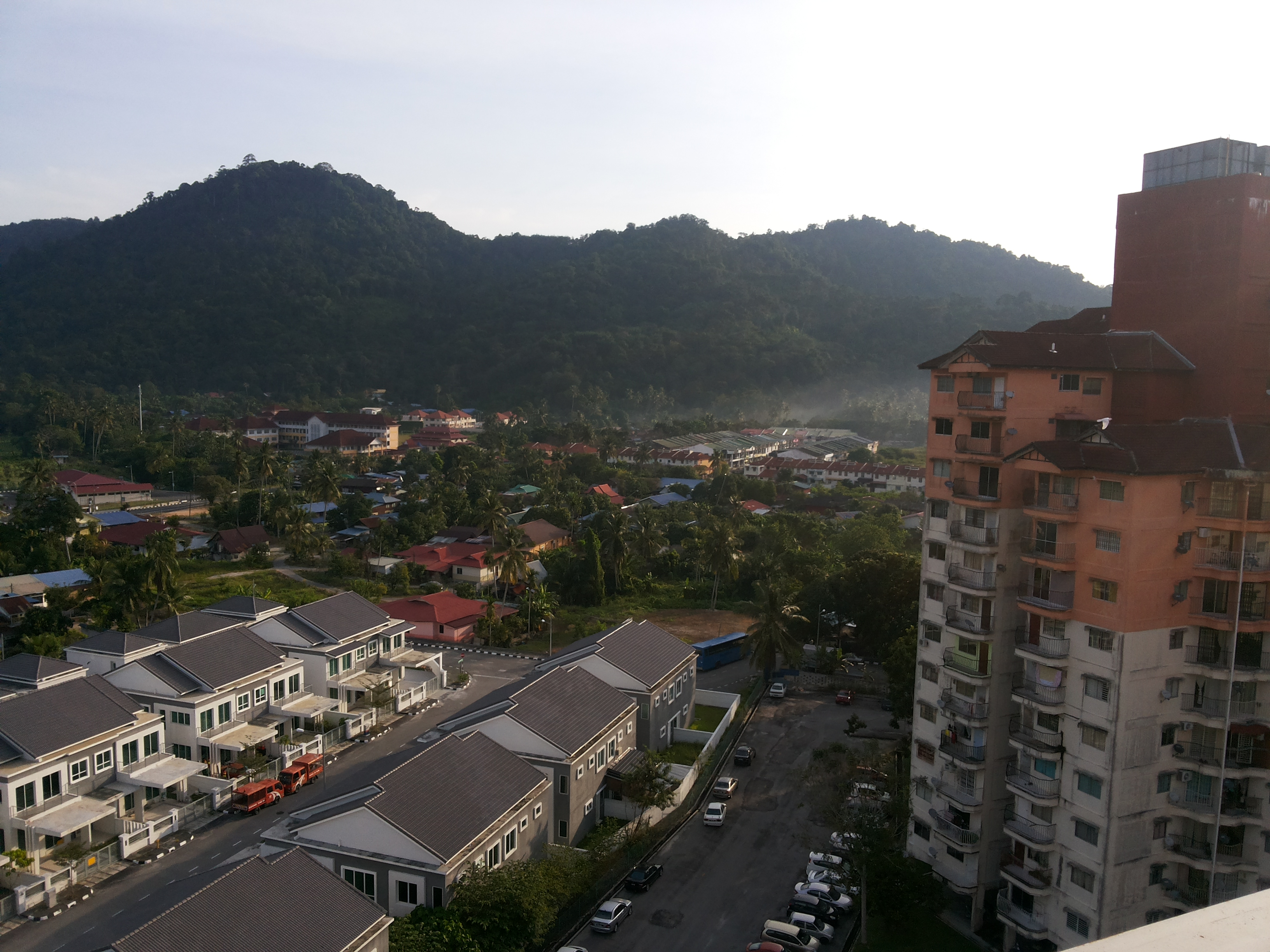 The picture was taken in Bayan Lepas, Penang, Malaysia. It captured the beauty of nature in the most classic way without any filters.